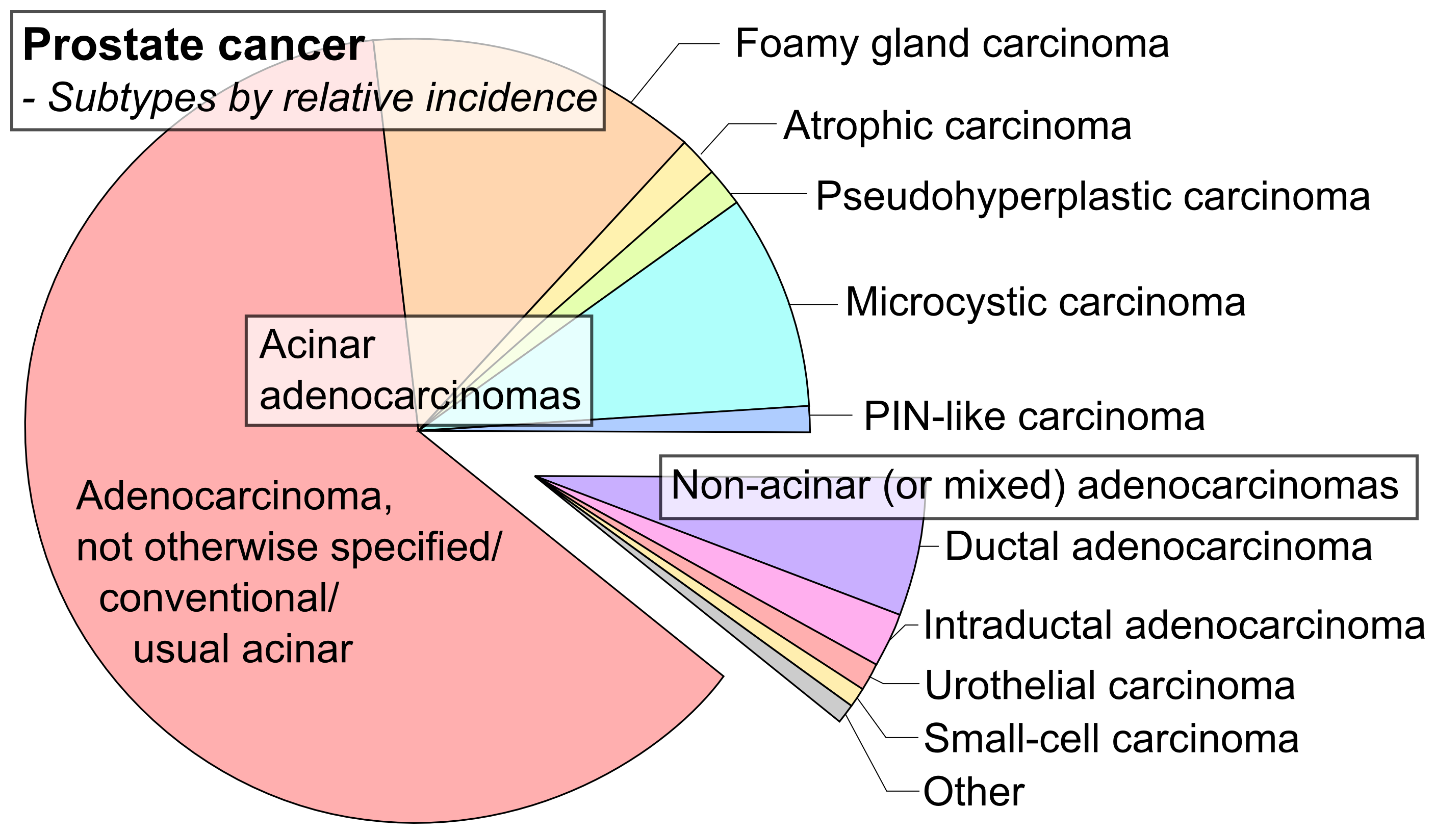 Prostate cancer types, reflecting table in the article Histopathologic diagnosis of prostate cancer.